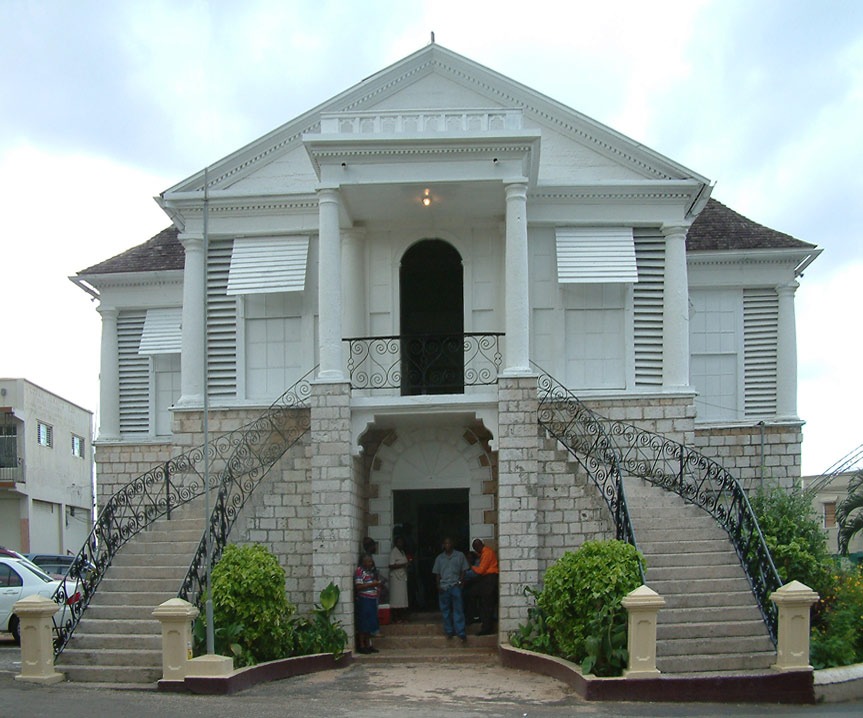 Courthouse in Mandeville, Jamaica. Photographed November 9,en:2005 by Op. Deo